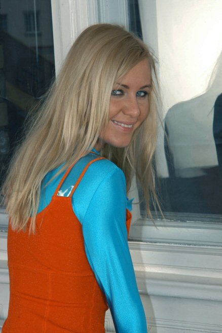 This is a picture taken by me in Jordan's flat in Budapest.